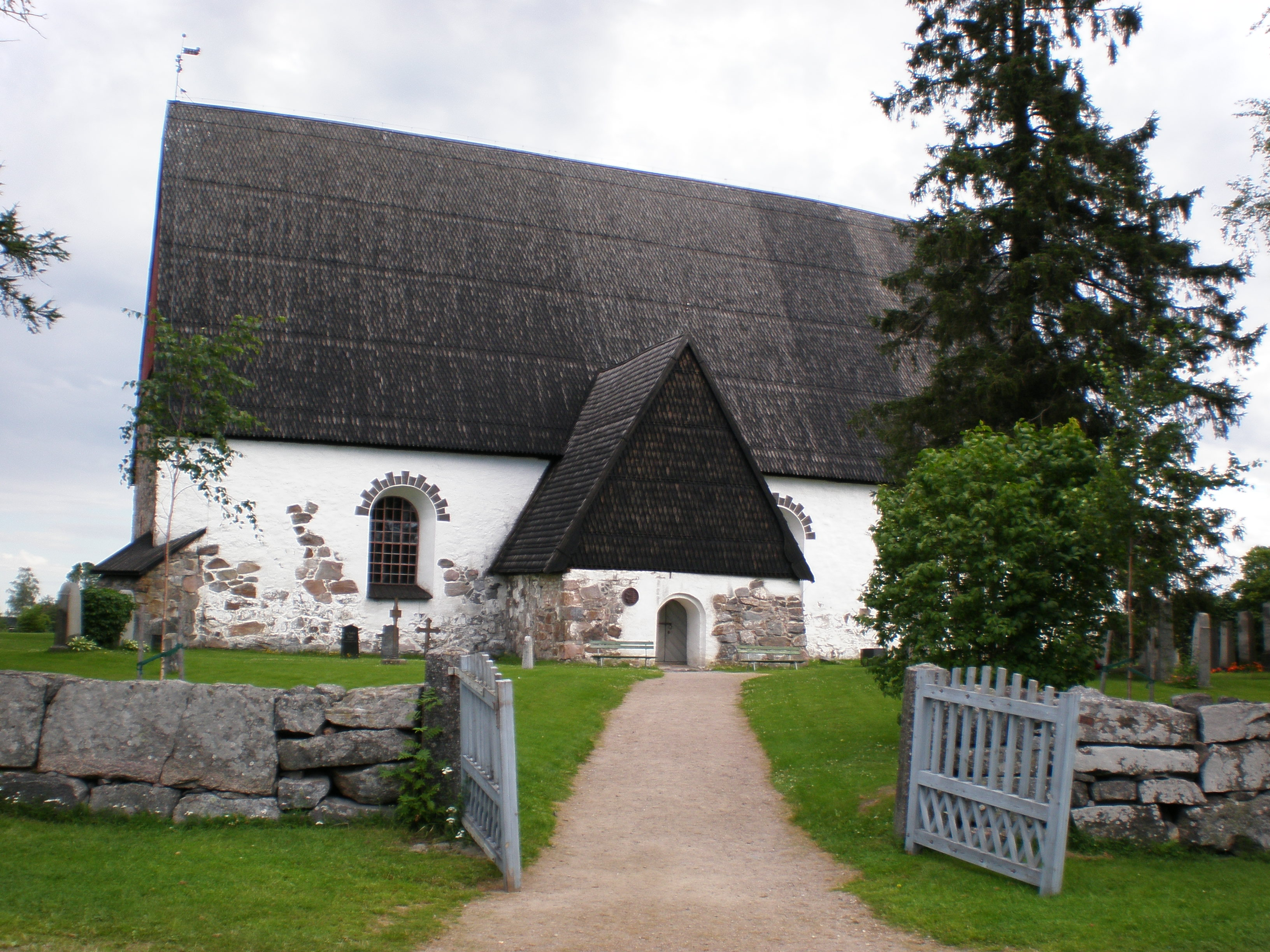 Medieval church in Isokyrö, Finland